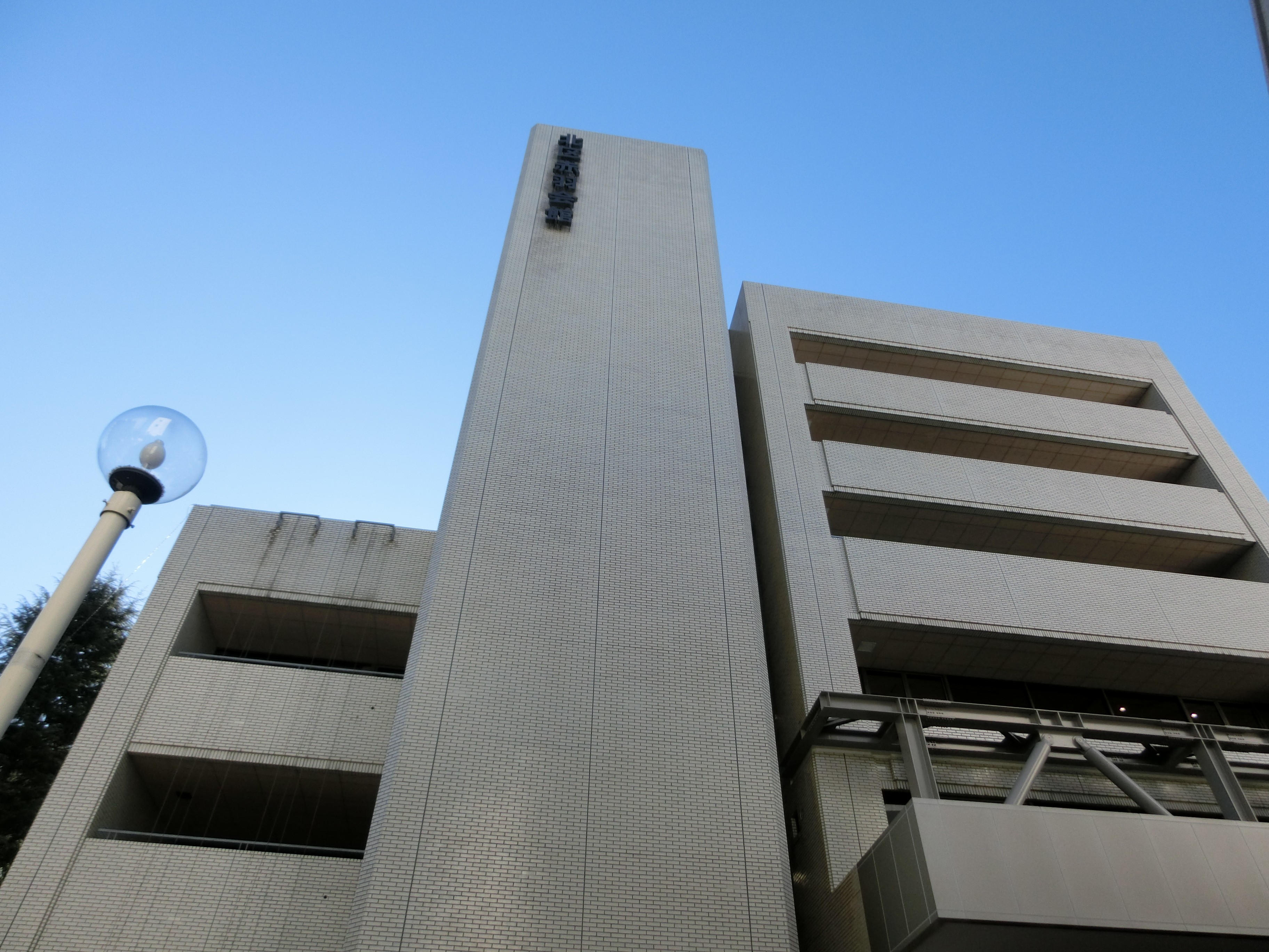 Akabane Kaikan in Kita Ward, Tokyo, Japan